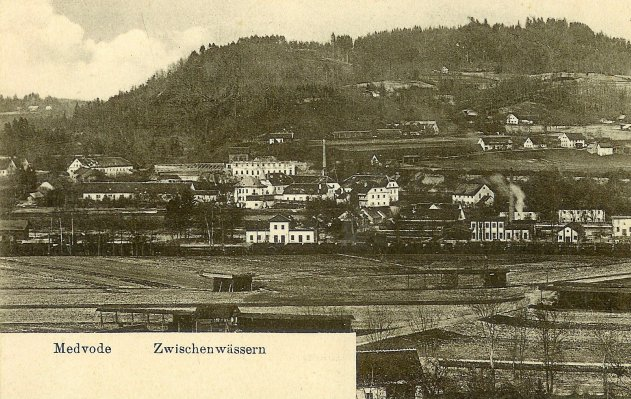 Photo of Medvode, Slovenia, around 1908. On the back side it says "Fr. Kunc, Fotograf, Ljubljana, Wolfove ul.6."